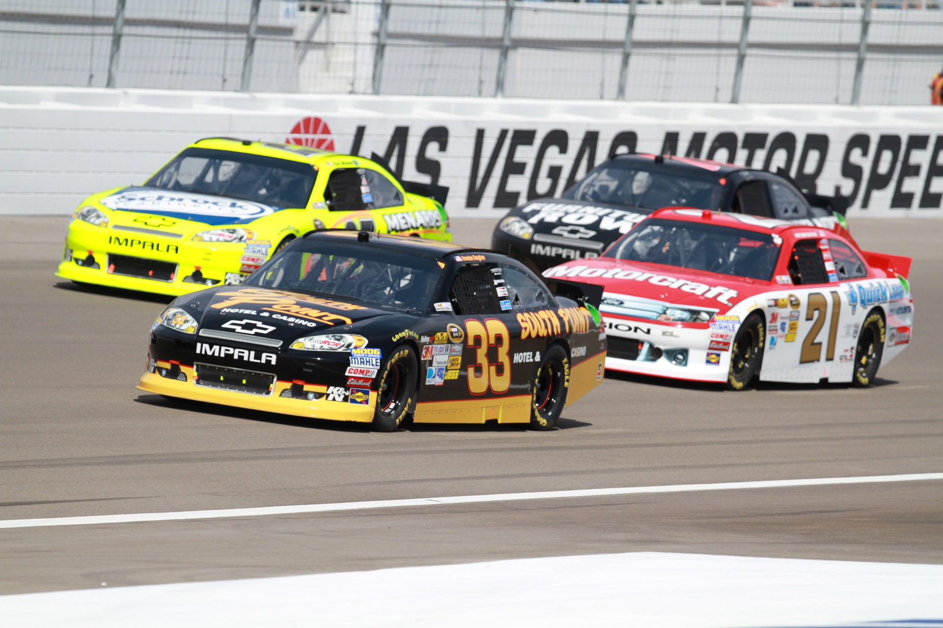 NASCAR cars racing at Las Vegas Motor Speedway. #33 is Brendan Gaughan